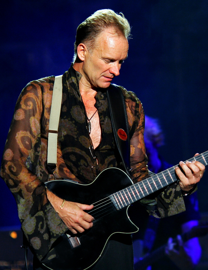 Sting - live in Milan